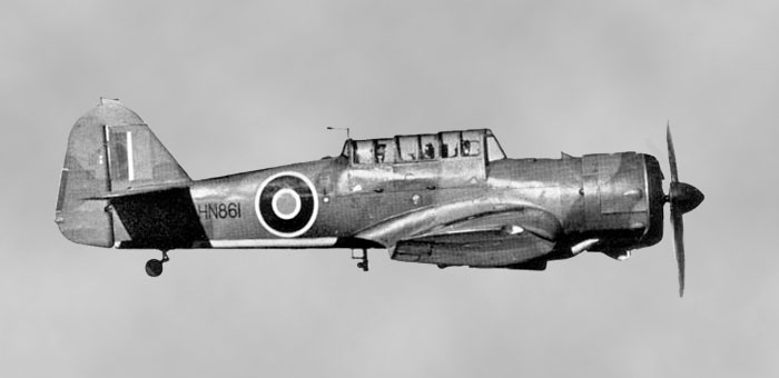 A Royal Air Force Miles Martinet TT Mk.I target-towing plane (serial HN861).